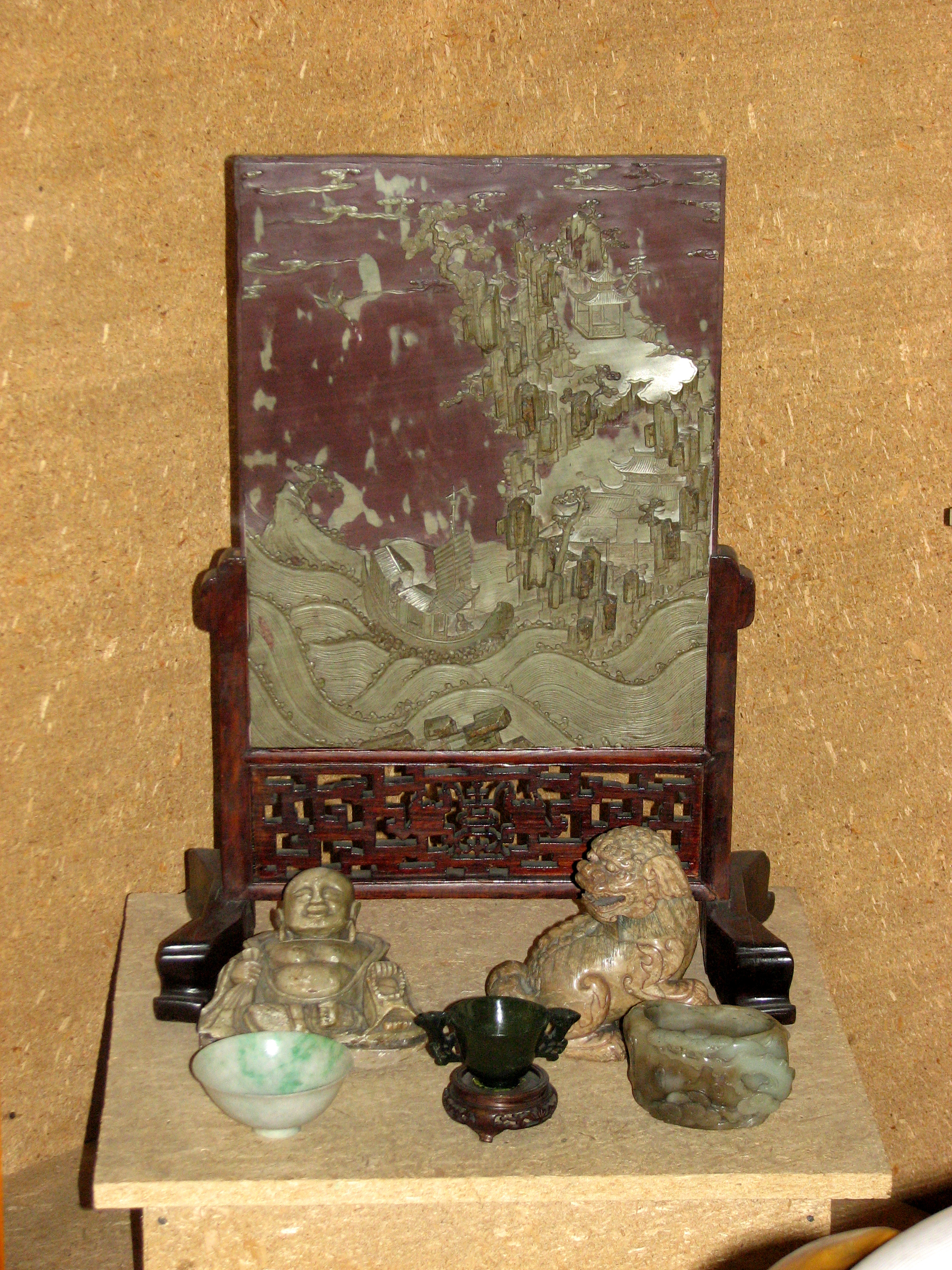 Saint Petersburg. Kunstkamera. Hall of China. Stone carving. Writing-materials and the written screen from a nephrite. A XVIII-th century.